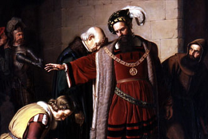 Zürich, Mayour Hans Waldmann : «Waldmanns Abschied» by Johann Caspar Bosshardt (* 1823 ; † 1887